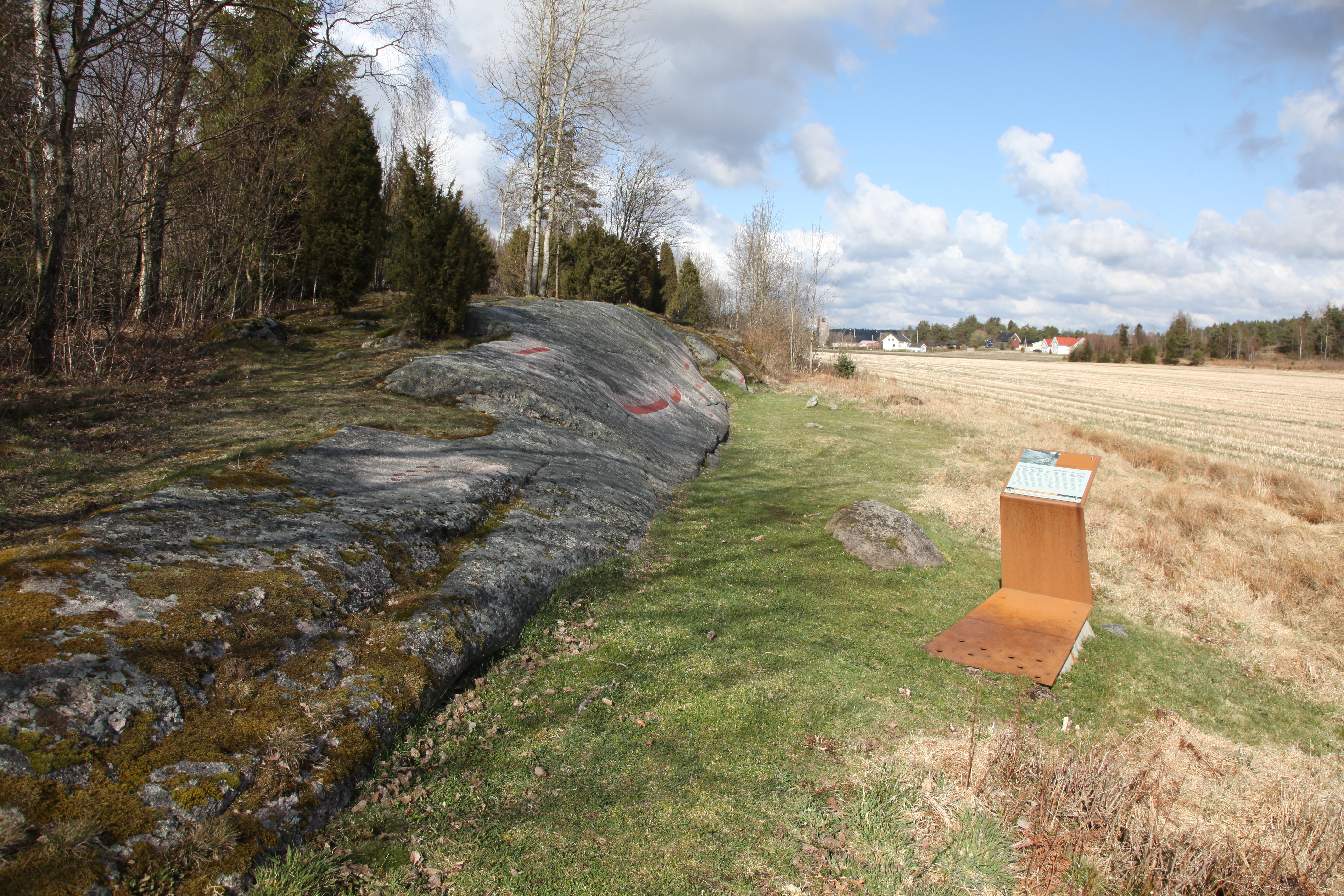 Rock carvings from the Hornes field in Østfold, Norway